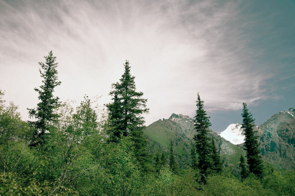 Ala Archa National Park